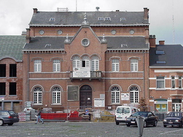 This photograph of Lennik's town hall was taken in 2000, when the town hall was undergoing extensive rebuilding.